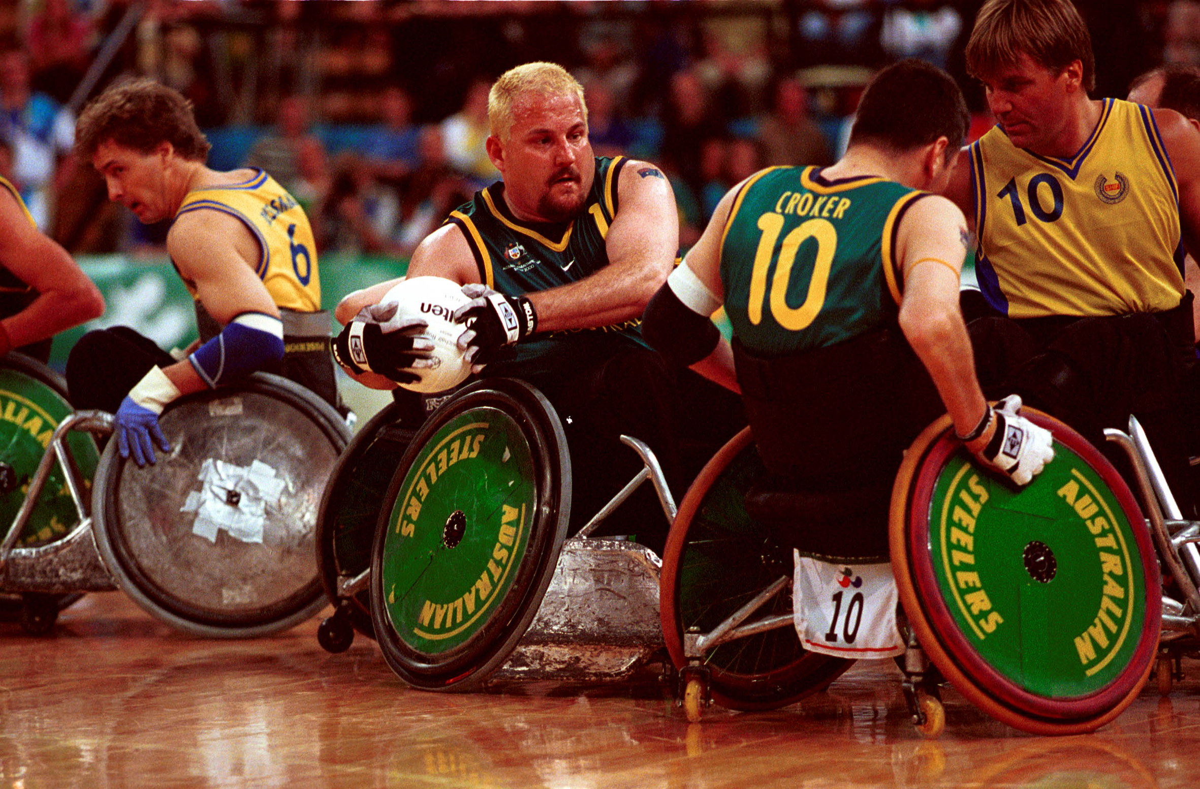 Action shot of Australian wheelchair rugby "Steelers" player George Hucks holding onto the ball during a match against Sweden at the 2000 Sydney Paralympic Games